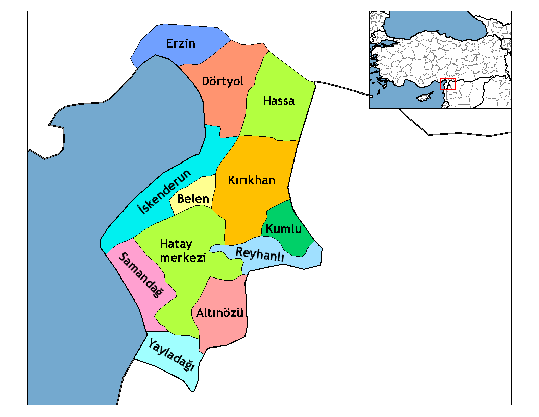 Map of the districts of Hatay province in Turkey. Created by Rarelibra 20:57, 1 December 2006 (UTC) for public domain use, using MapInfo Professional v8.5 and various mapping resources. Edited by One Homo Sapiens Corrected text where İ,Ş,ı,ğ,or ş occurs in name. Source: [statoids-com]. Increased font size and enhanced color differences among adjacent districts.